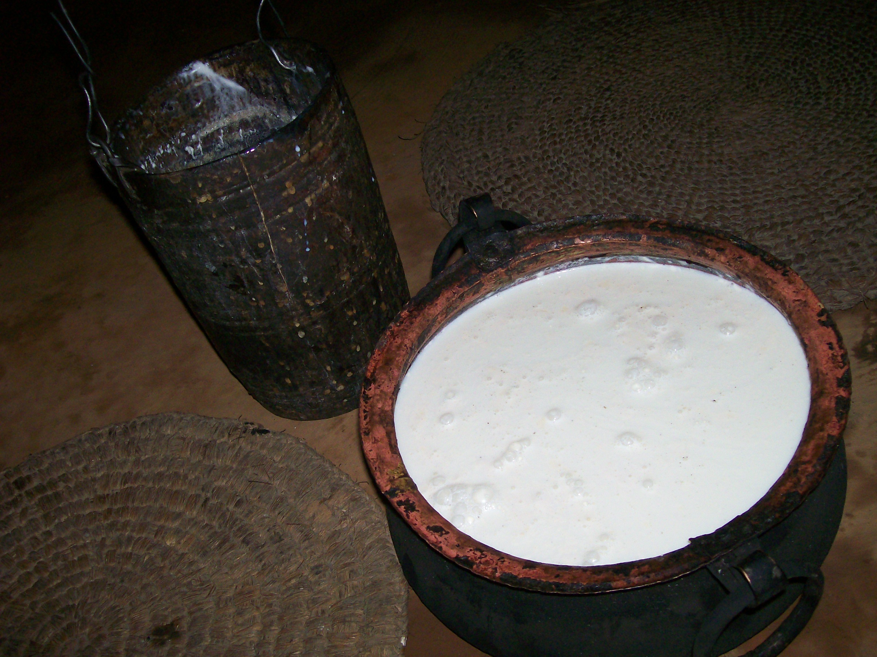 Nepali fresh Cow Milk